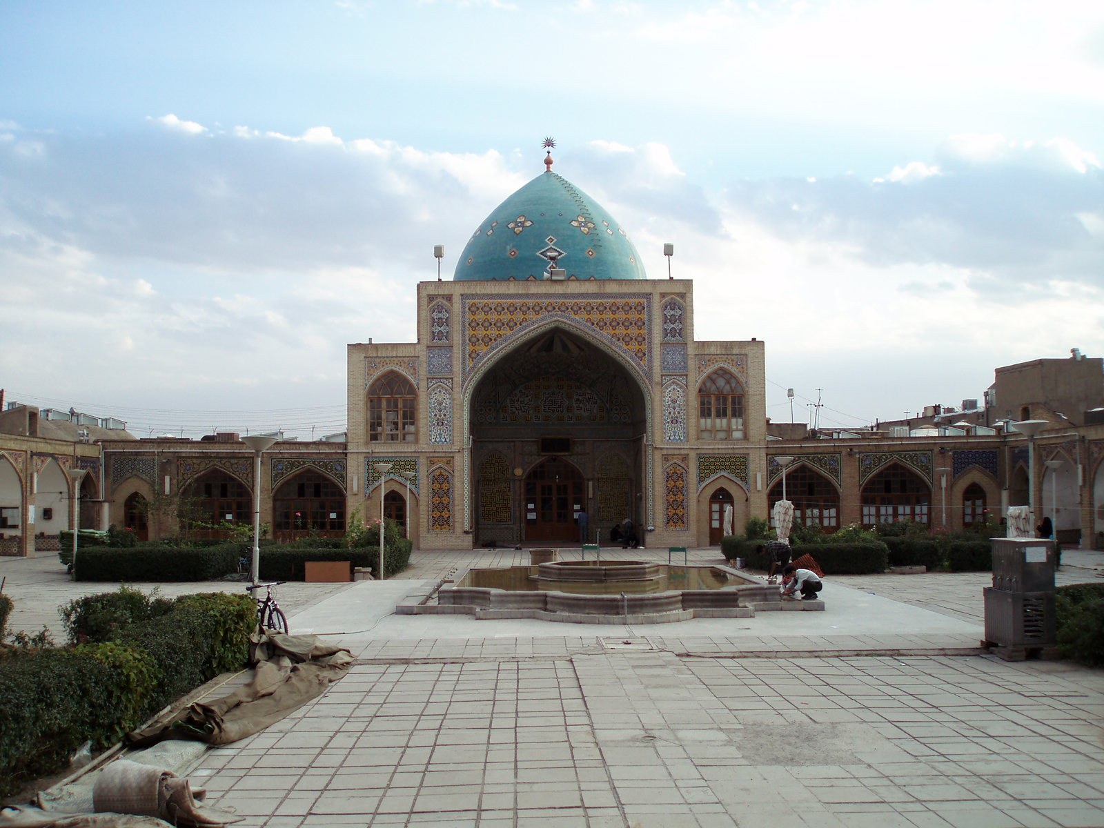 Seyyed Mosque (also known as Jame Mosque), Iran, Zanjan.